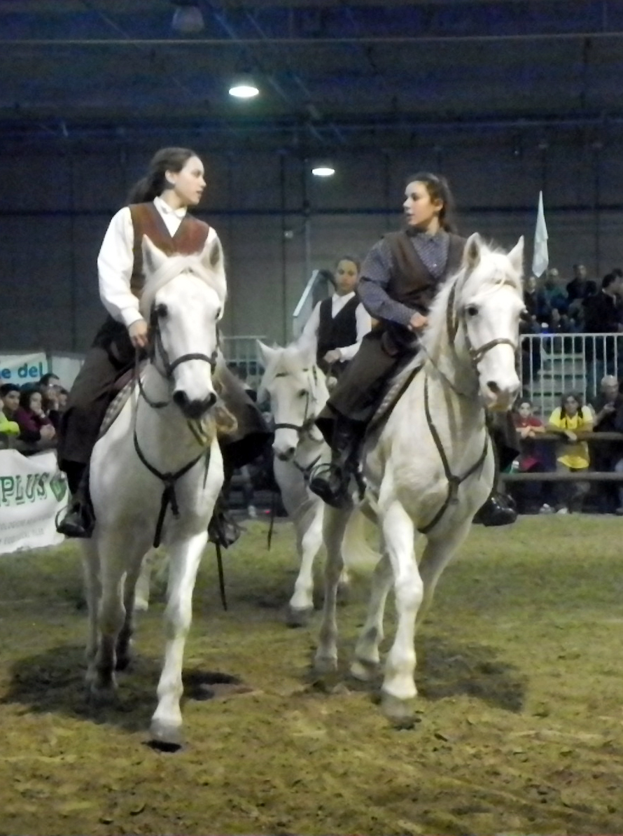 Cavallo del Delta (Italian Camargue Horses), photographed at Fieracavalli, Verona, Italy, on 9 November 2014.